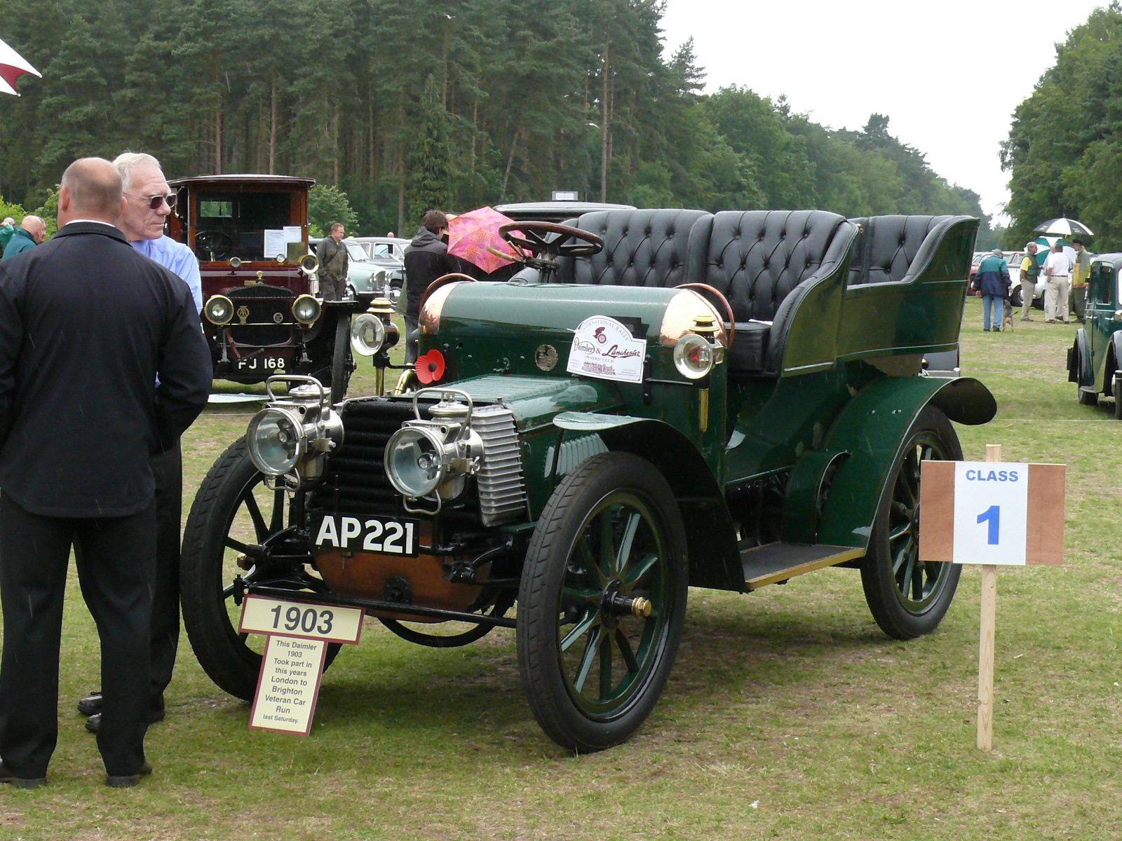 Daimler Fourteen tonneau 1903 [AP 221] Daimler & Lanchester Owners Club, International Rally, Queen's Birthday weekend, Sandringham, Norfolk Sunday 12 June 2011 (DVLA) 1701cc ?, reg 30 December 1903(?) Chassis no 2090 This car is the property of the Daimler Jaguar Heritage Trust Its rear entrance tonneau body was constructed for it in 2001